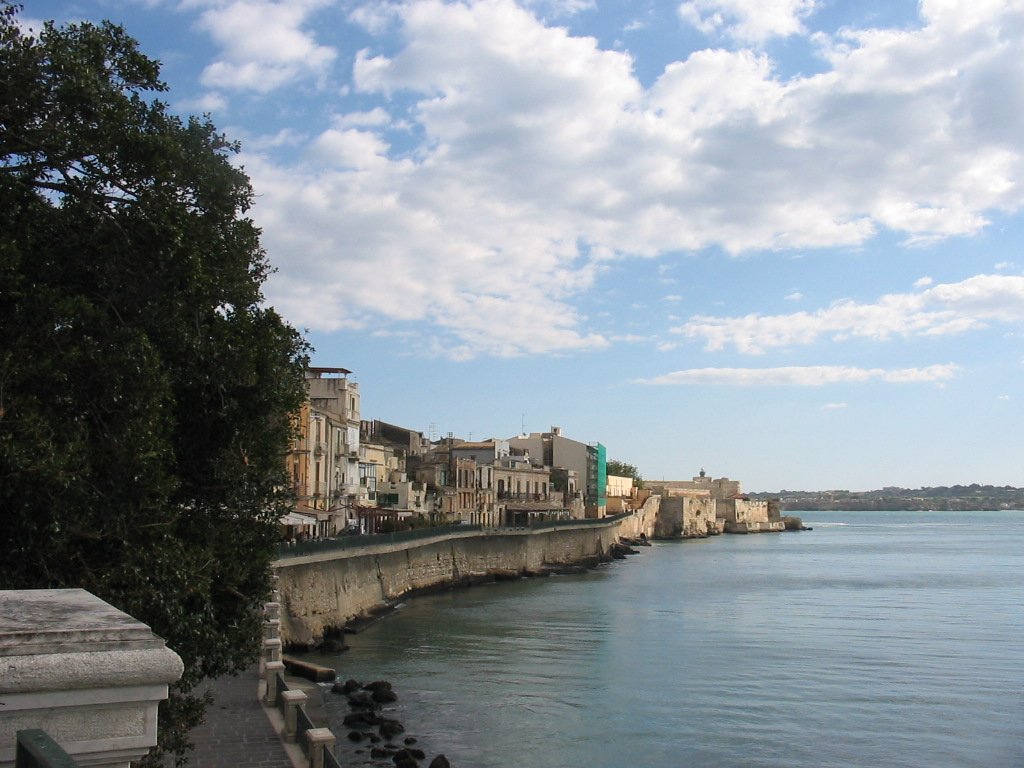 View of Ortygia, Syracuse